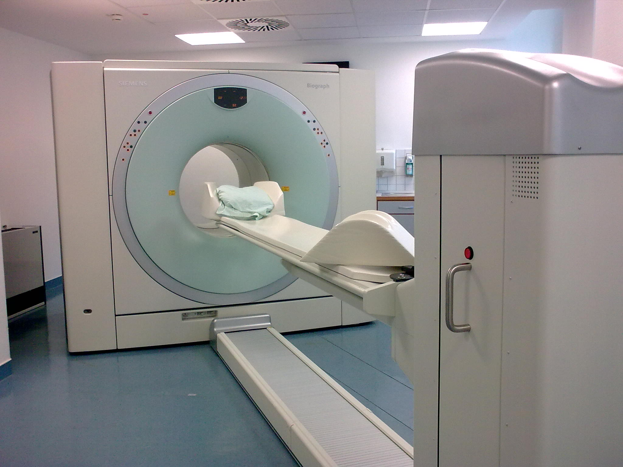 Combined apparatus for positron emission tomography (PET) and X-ray computer tomography (CT), Siemens Biograph